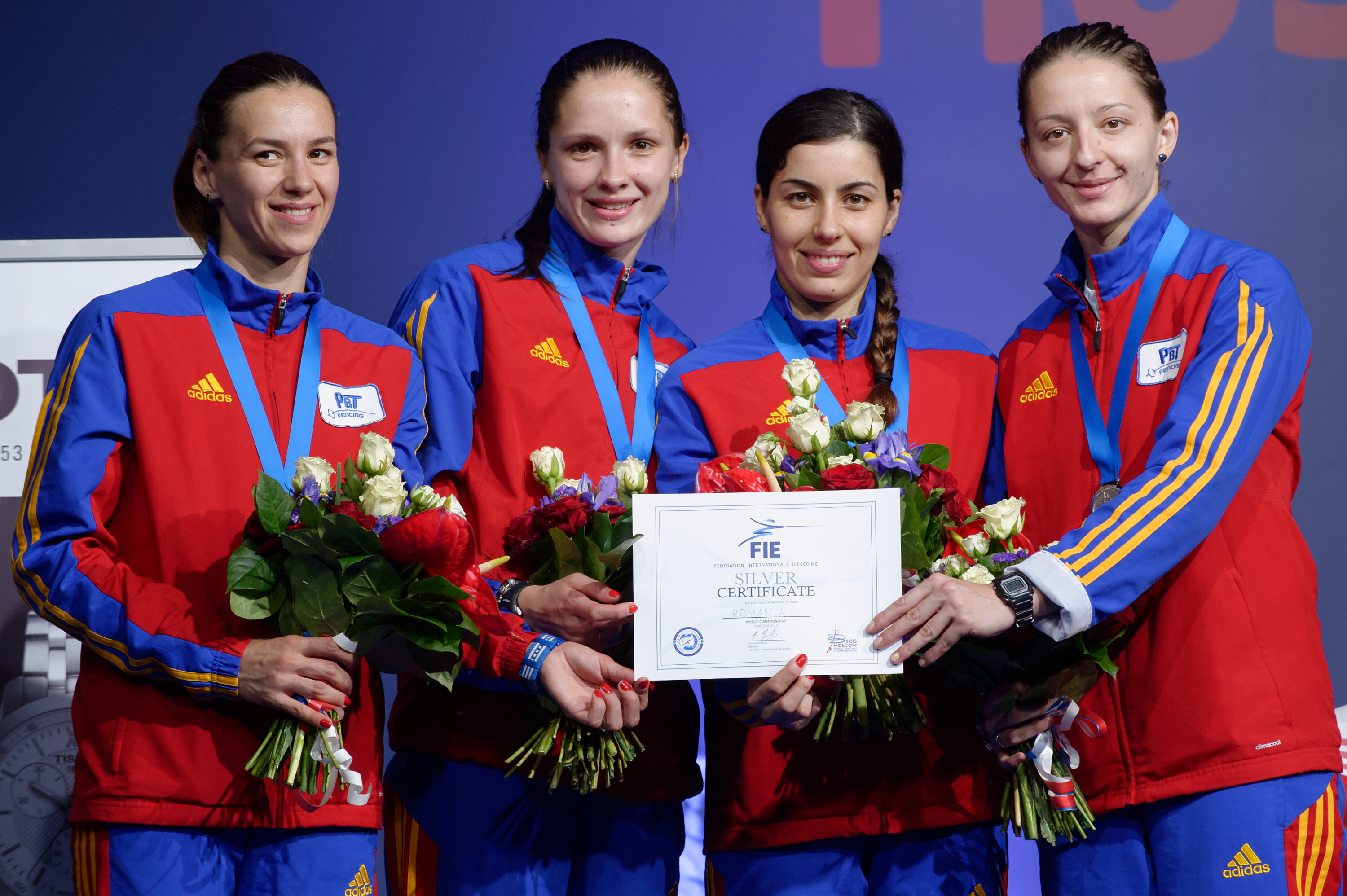 Romania (from left to right, Simona Gherman, Simona Pop, Loredana Dinu and Ana Maria Brânză) at the medal ceremony of the women's team épée event of the 2015 World Fencing Championships on 18 July 2014 at the Olympic Stadium in Moscow.